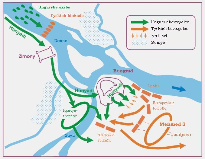 The battle of Belgrade 1456.